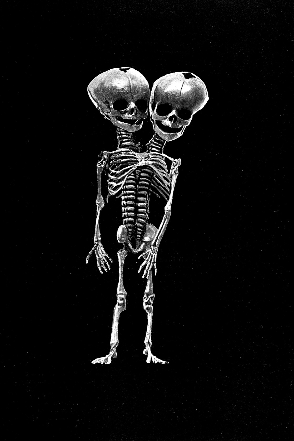 Dicephalus dibrachius diauchenos. General Collections Keywords: DEFORMITY; human monstrosities; Anatomy; Congenital Abnormalities